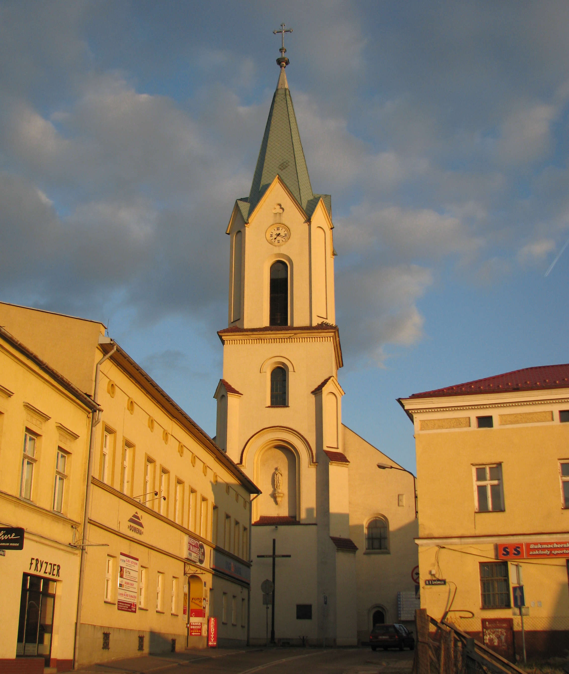 Church in Oświęcim. Poland